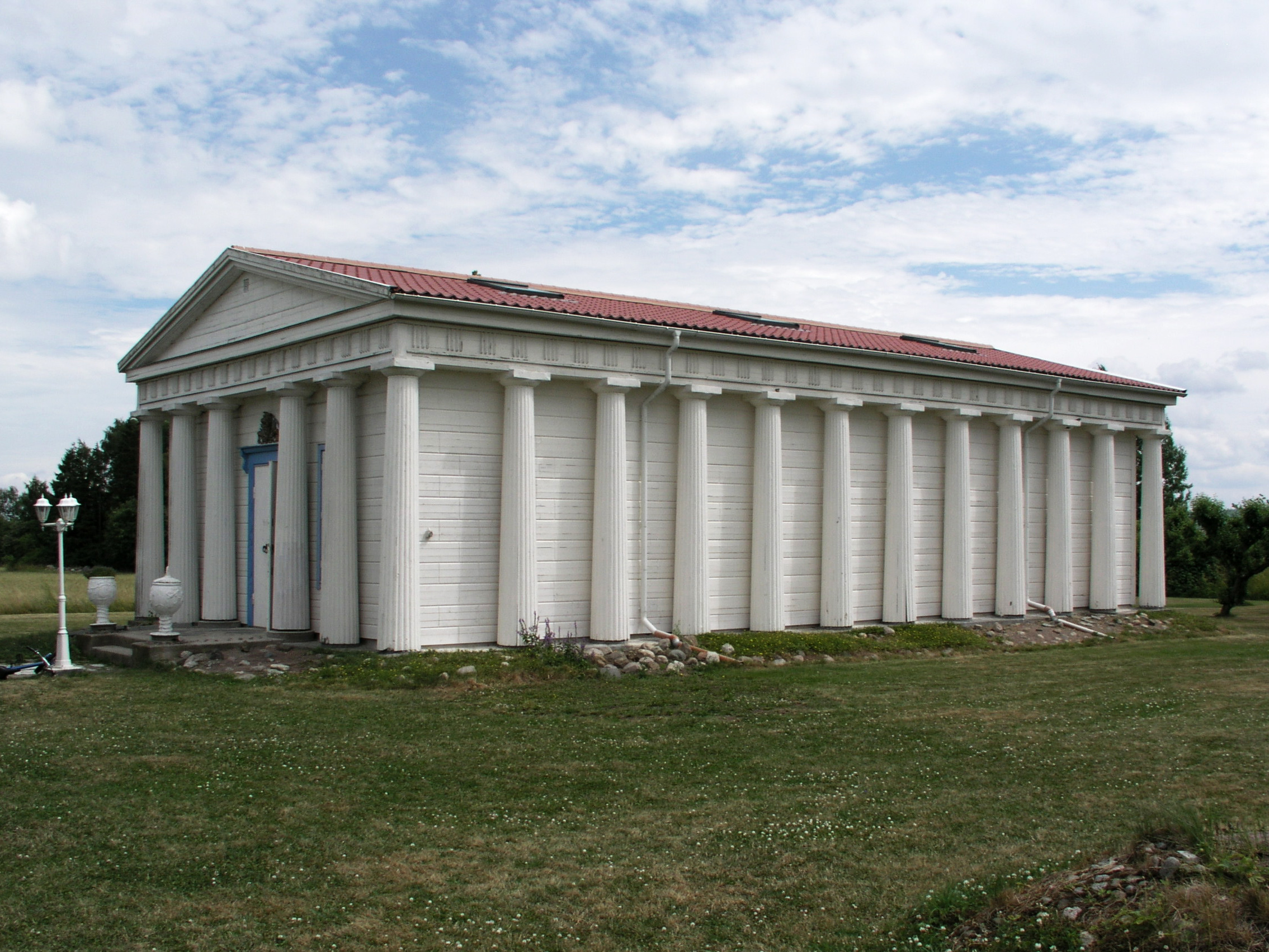 Tempelgården, art museum, Visingsö, Jönköping, Sweden